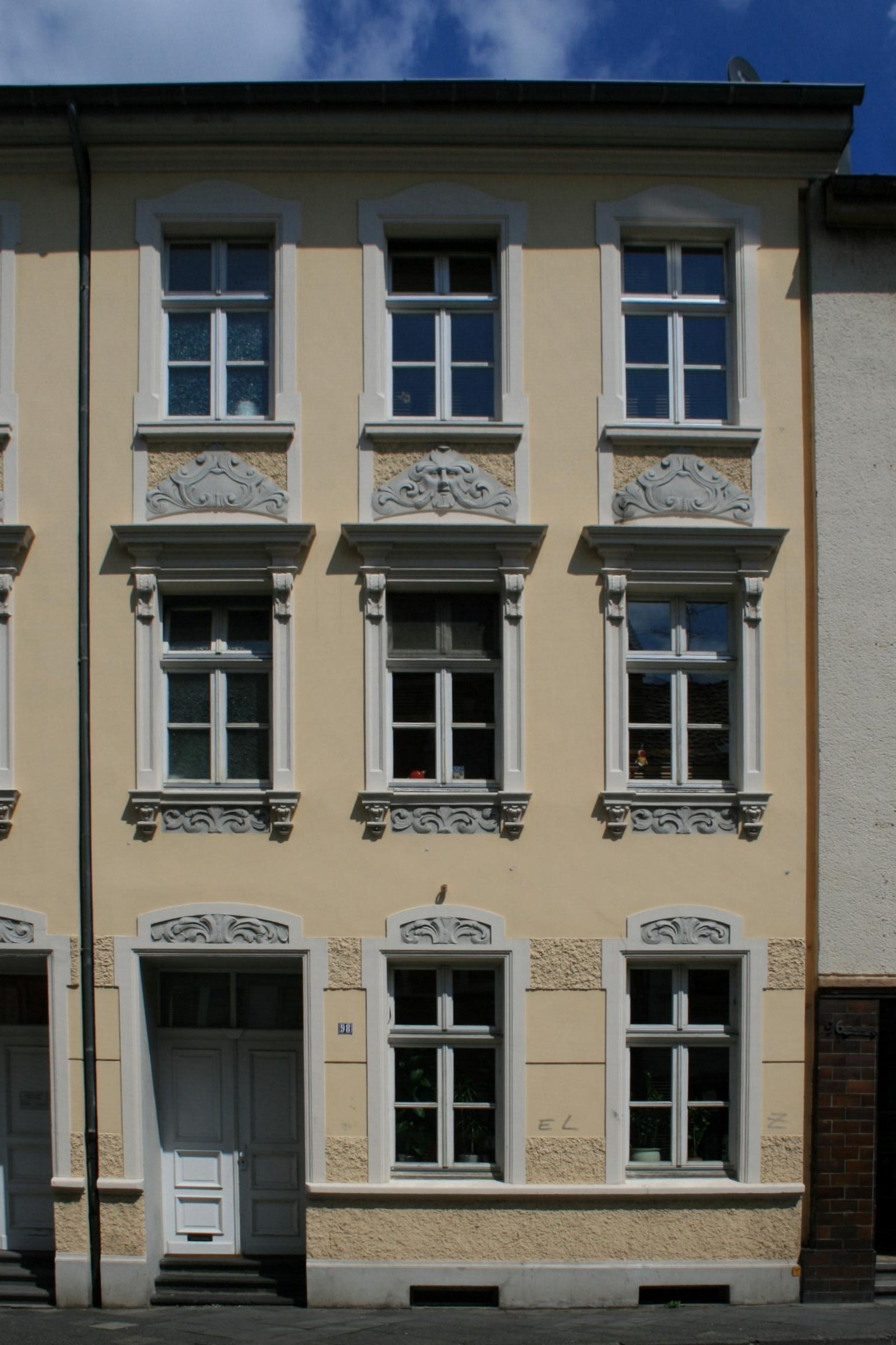 Cultural heritage monument No. W 003 in Mönchengladbach